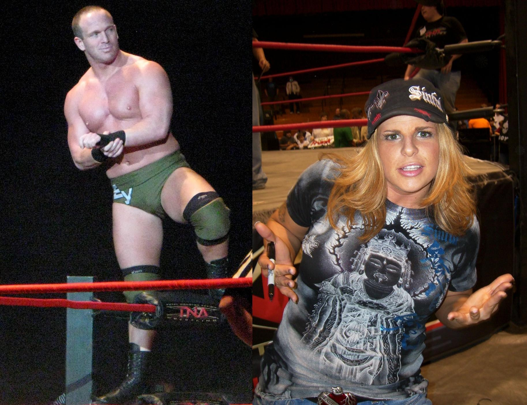 Eric Young and ODB, TNA Knockouts Tag Team Champions